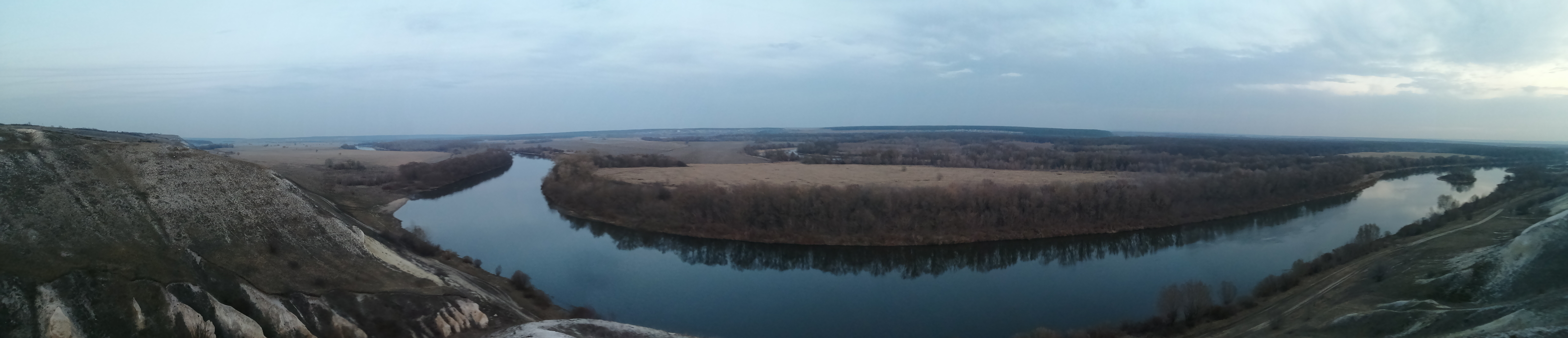 View from the Cretaceous Mountain to the Don River from the top of Lysaya Gora near the village of Selyavnoye-Second, Liskinsky District, Voronezh Region. The approximate place of the feat of the Hero of the Soviet Union Tuleberdiev Cholponbay.